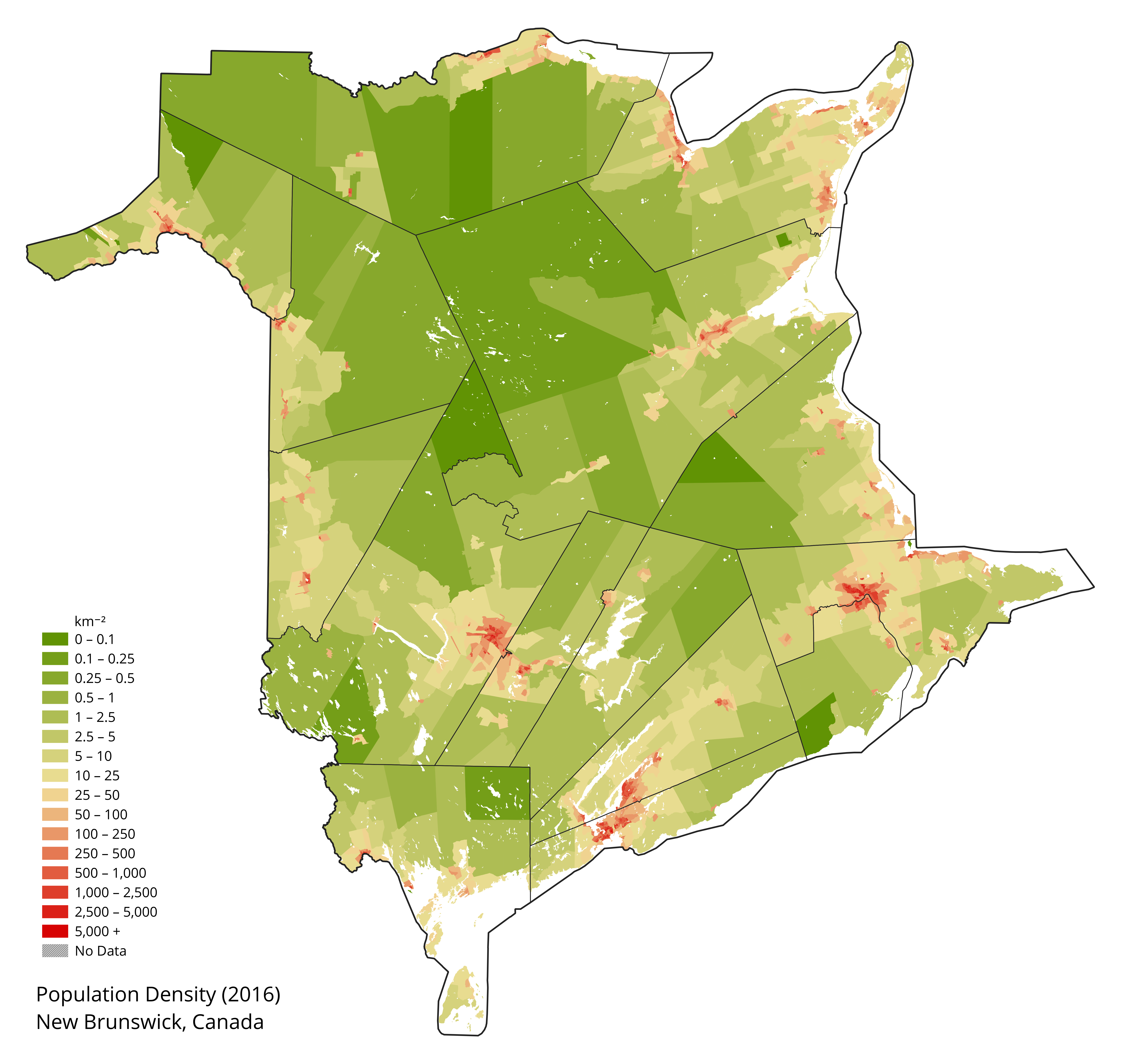 Population density map of New Brunswick, Canada. Boundary open data and final counts from Canadian 2016 Census accessed on April 22 2018. Waterbodies from WWF HydroLAKES database.